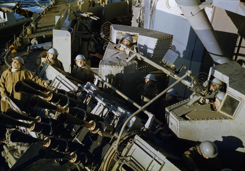 IWM caption : "Pom-pom naval anti-aircraft guns on a battleship. (Possibly HMS KING GEORGE V)." Comment : This shows an 8-barrel mounting of QF 2 pounder pom-poms.